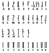 I created this image. Based on